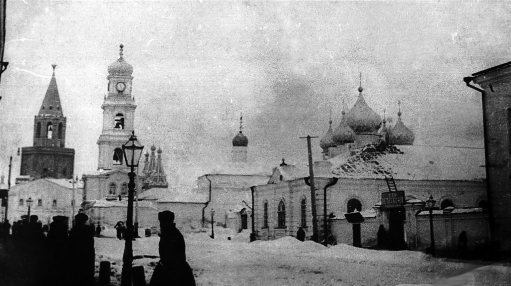 Saviour-Transfiguration monastery in Kazan Kremlin. View from the Kremlin’s main street